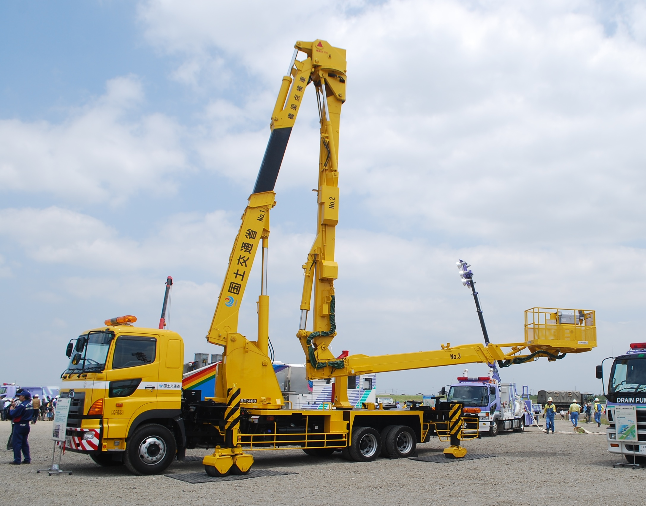 Car to inspect the bridge．